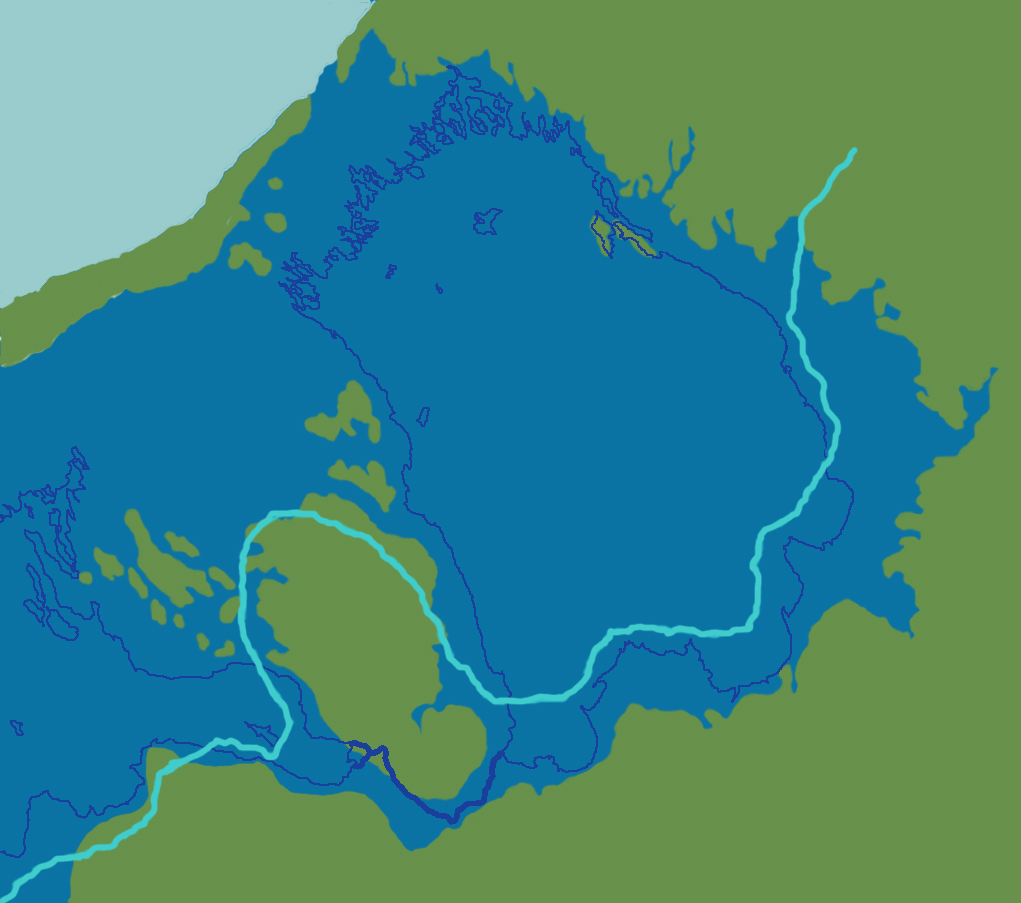 Lake Ladoga as part of Baltic Ice Lake (between 11200 and 10500 yr BP). Blue line - front of Ice margin 13300 cal yr BP.